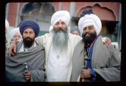 This is a photo of Yogi Bhajan with Bhai Amrik Singh and Baba Nihal Singh, Amritsar 1980.